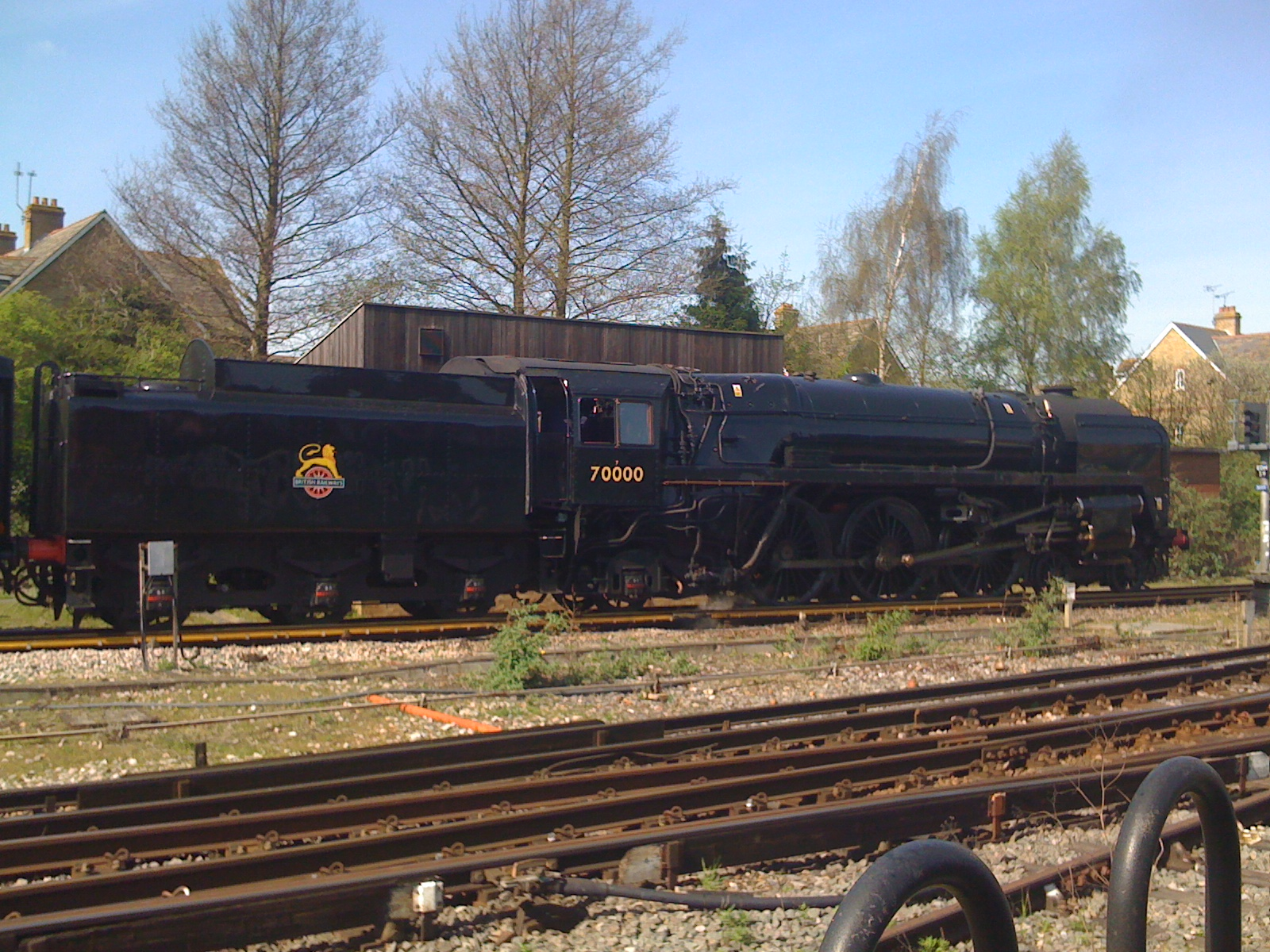 70000 Britannia at Canterbury West, having just taken on water, about to leave for Margate.